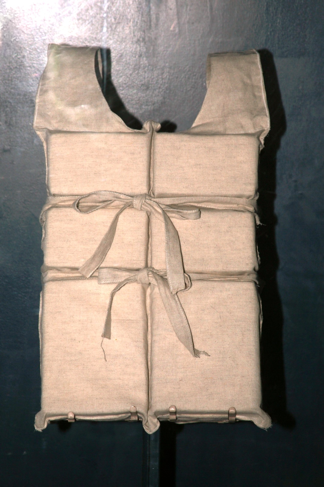 This is a replica life jacket similar to those on the Titanic. There are only 12 full Titanic lifejackets left in the world from a total of 3560 carried on board, with around 6 partial ones and a few odd pieces such as cork and canvas scraps joining them. Most of them are in private collectons. The last one sold at auction for $ 66,000, around £45,000. It is made of a canvas cloth covering cork. Unlike life jackets today, it is surprisingly heavy. However, it is very buoyant. Unfortunately, the design was such that when a someone fell or jumped from the ship, it was possible for the person's head to hit the cork and break his or her neck.